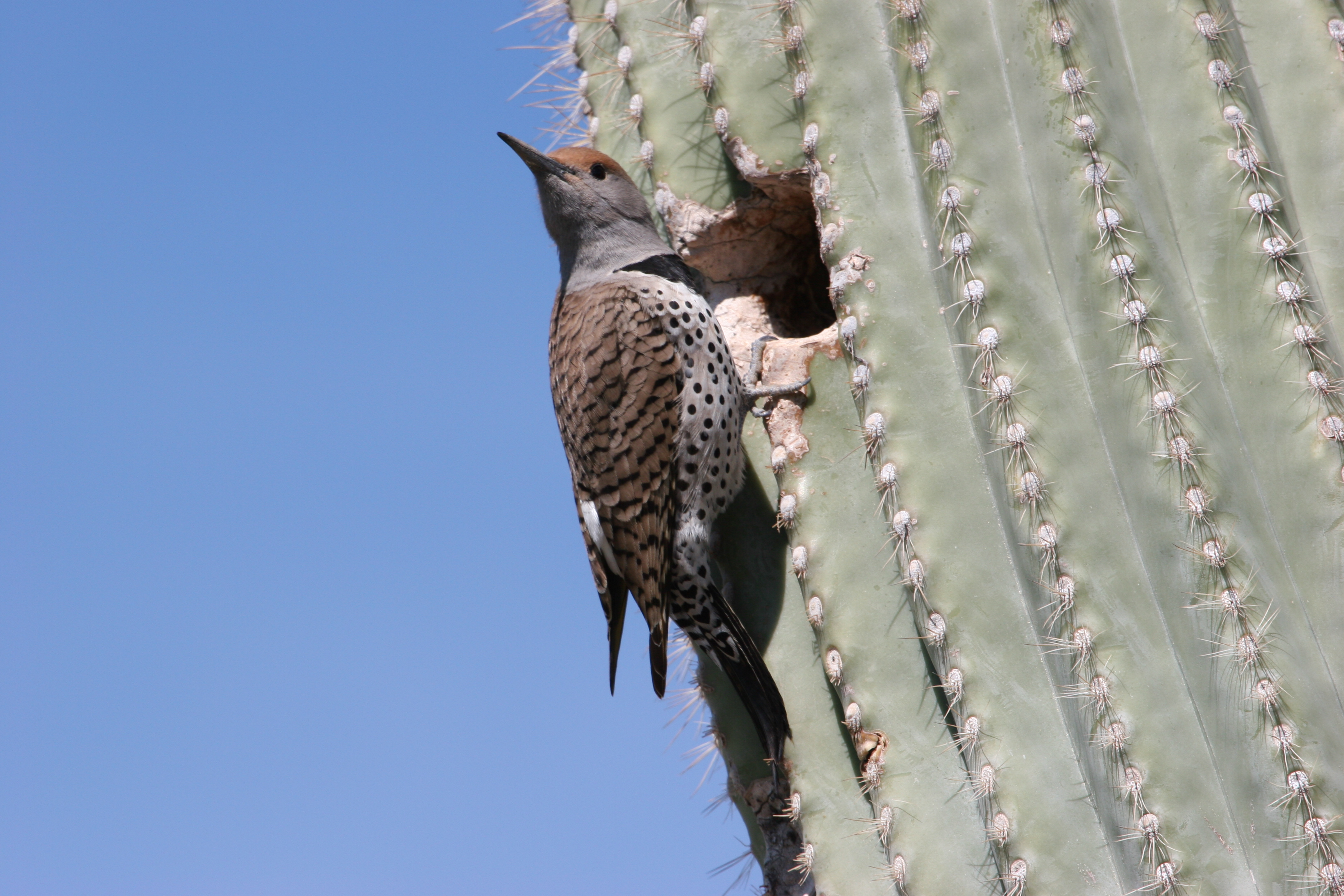 Gilded Flicker (Colaptes chrysoides) at nest hole in saguaro cactus (Carnegiea gigantea). Near Phoenix, Arizona.